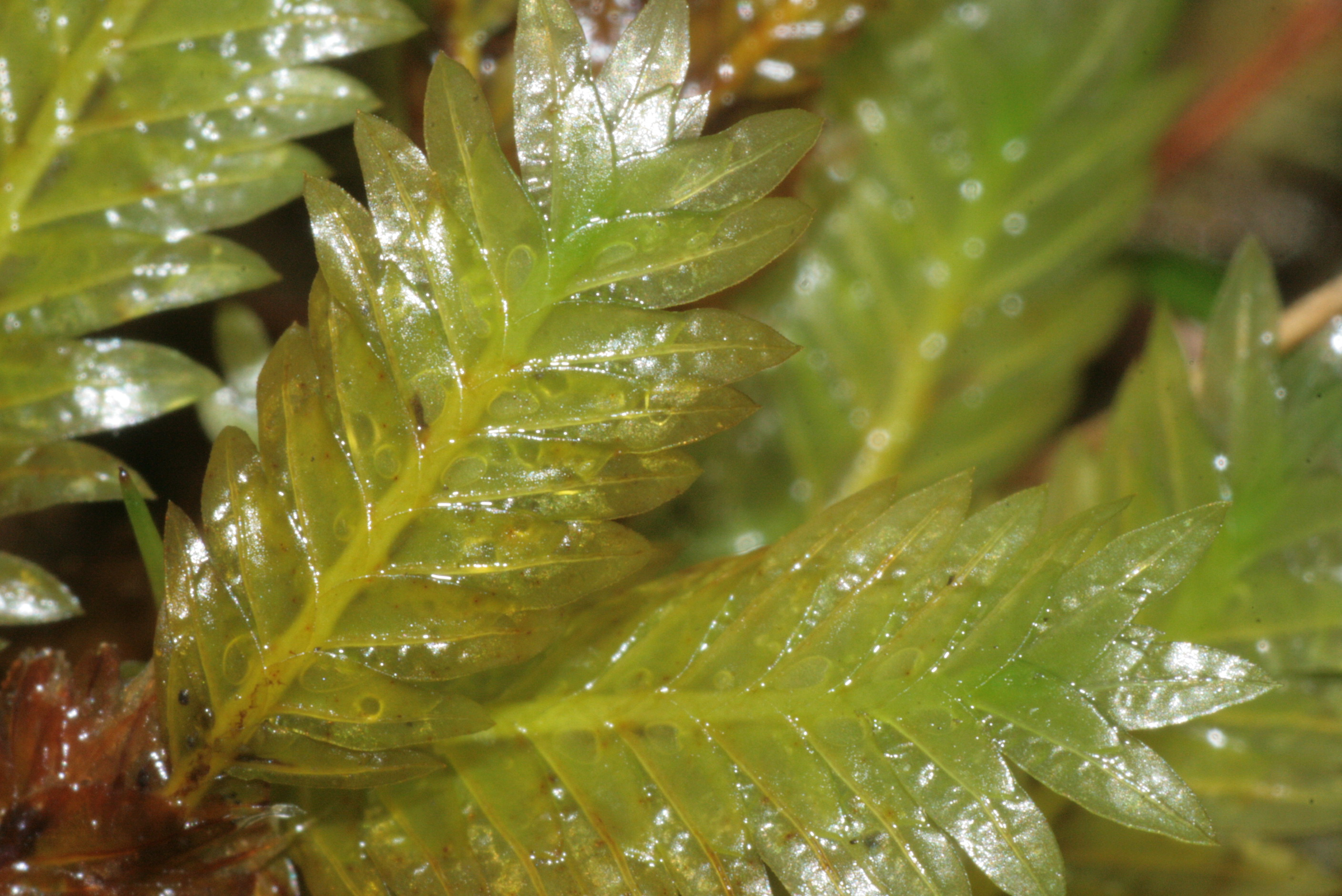 Fissidens adianthoides